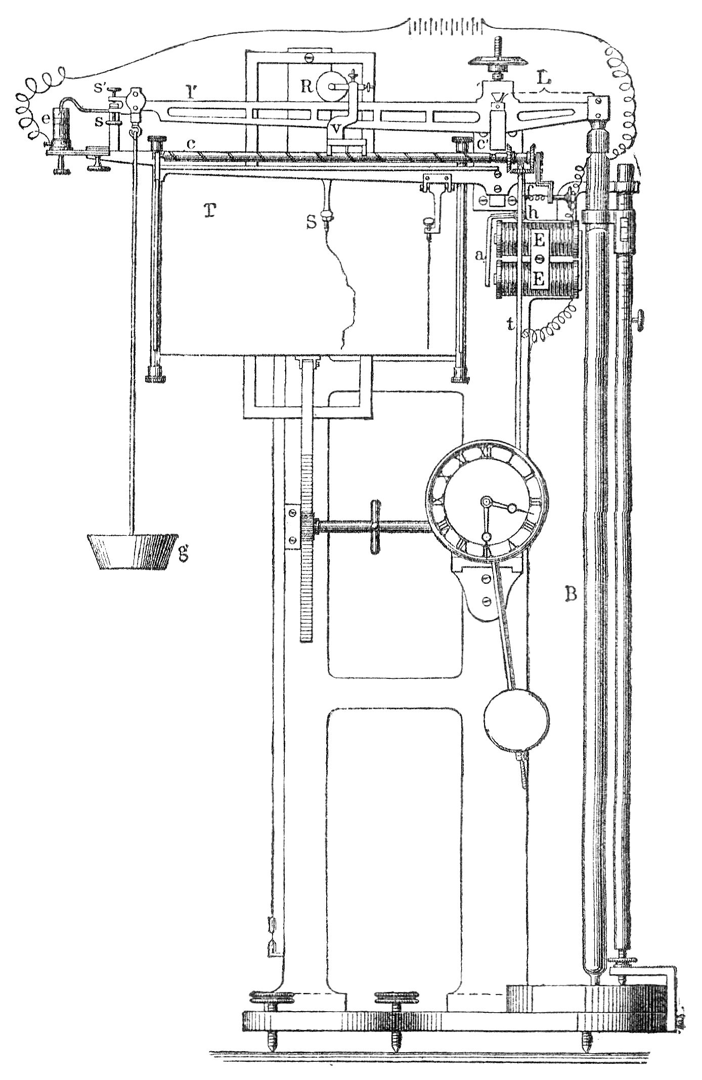 Weight Barograph of Adolf Sprung (1848-1909) and Rudolf Fuess (1838-1917)